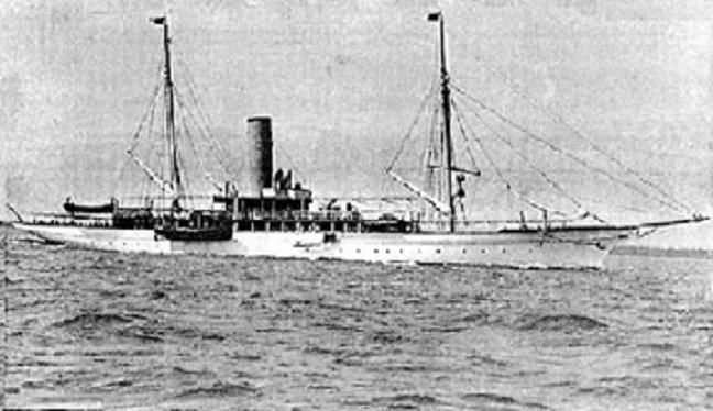 The Admiralty yacht HMS Iolaire under the name Amalthaea. It sank on the morning of 1 January 1919 on the Beasts of Holm, rocks outside Stornoway harbour.